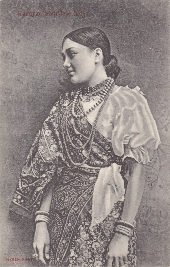 Kandyan Sinhalese Lady Wearing A Traditional Kandyan Saree (Osaria)